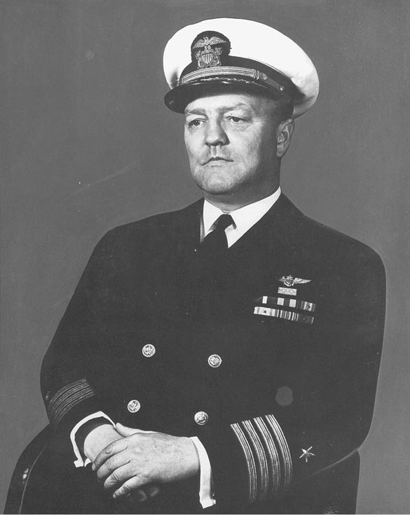 American war hero, Medal of Honor recipient